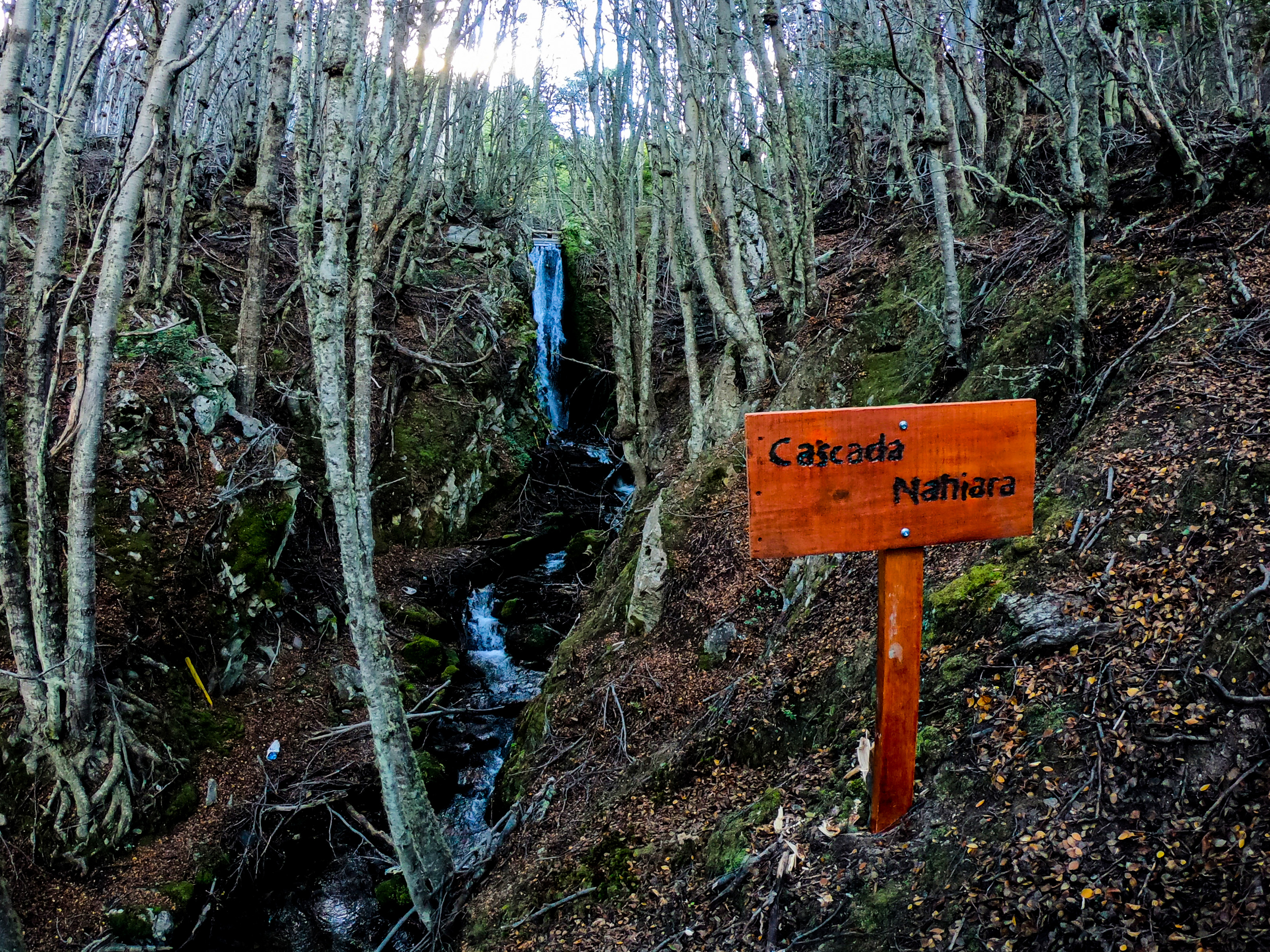 Cascada Nahiara